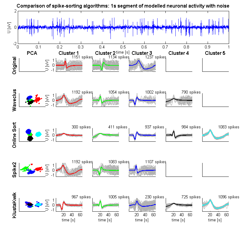 A fgure, showing section of artificial neuronal activity signal (top), formed originally by 3 neurons plus noise. The row Original shows original action potentials, as generated by a model, other rows show clustering, according to different clustering methods (Waveclus, OnlineSort, Spike2 and KlustaKwik).